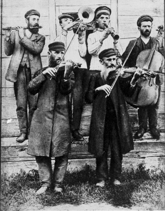 Klezmer musicians at a wedding, playing an accompaniment to the arrival of the groom, Ukraine, ca. 1925. Photograph by Menakhem Kipnis.